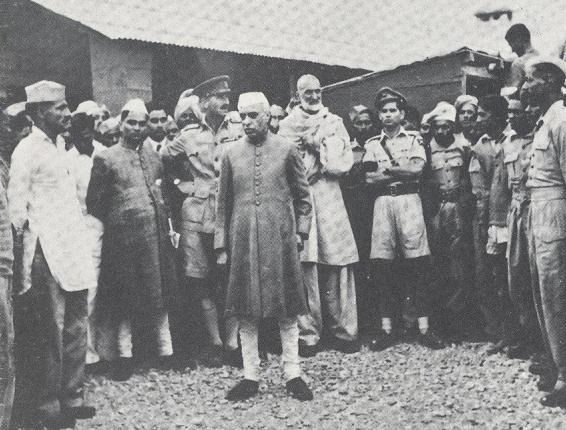 Jawaharlal Nehru with Abdul Ghaffar Khan during a visit to the North-West Frontier Province,1946